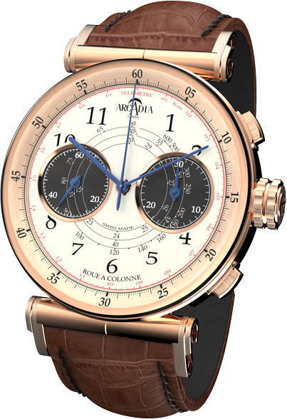 Arcadia Vintage 22